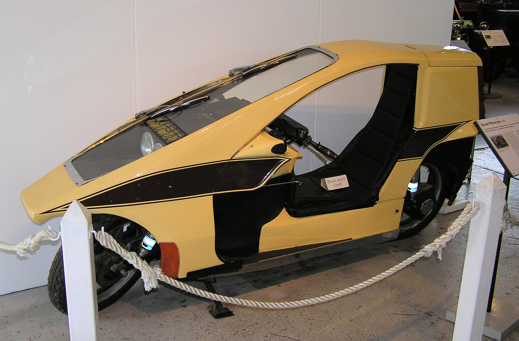 Quasar motorcycle in the Bristol Industrial Museum, Bristol, England. This is the works demonstrator TWS 632T, built in 1976 by Wilson Engineering, Staple Hill, Bristol, England, and rebuilt by Romarsh in 1983. It is still in full working order. The price of a Quasar was around £5000, the price then of a medium-sized family car. (In 2007 the Bristol Industrial Museum was permanently closed for conversion to the Museum of Bristol. The exhibits are in storage.) Photographed by Adrian Pingstone in August 2004 and released to the public domain.